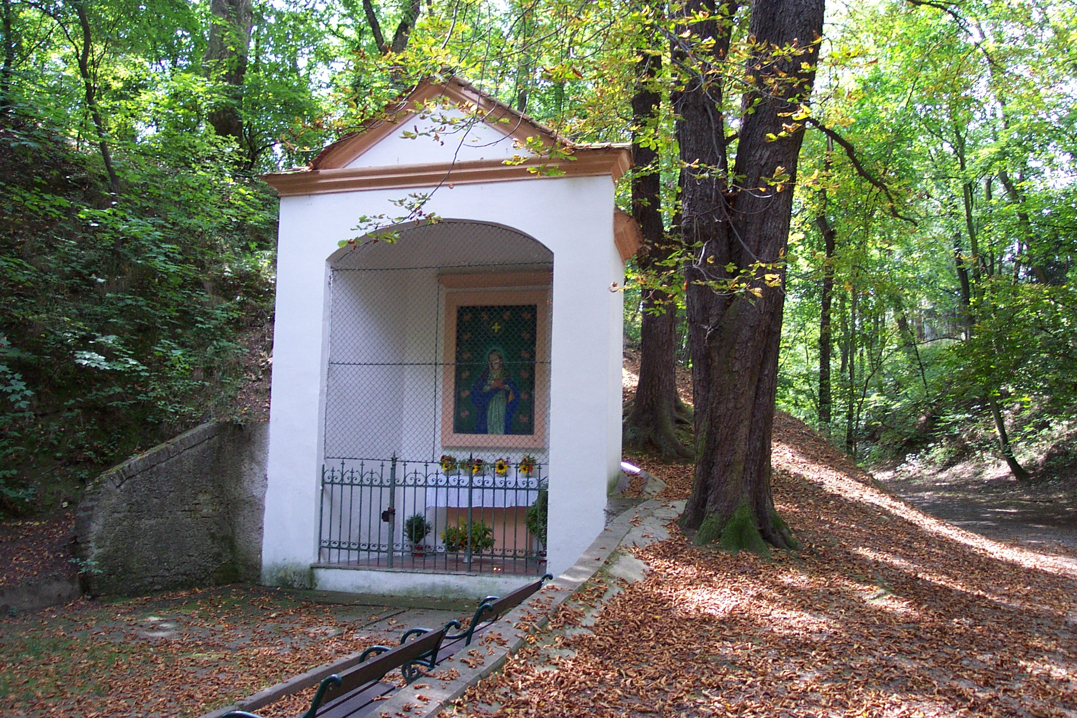 Prague-Lysolaje, Miraclous spring